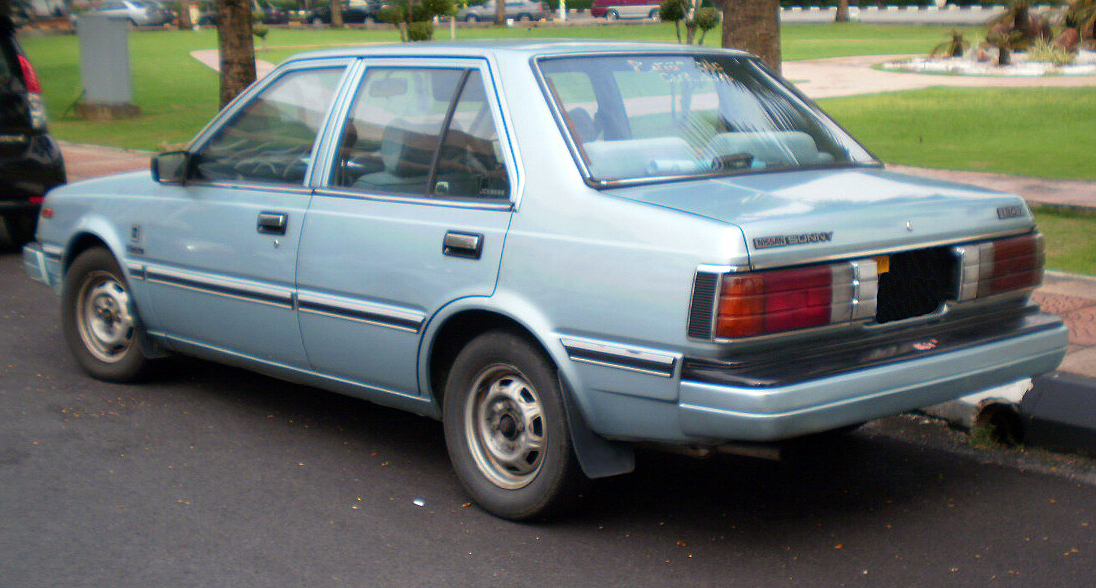 1988 Nissan Sunny 130Y, a Malaysian built version of the B11 Sunny which continued to be built alongside newer Sunnys as a low-cost alternative, from 1983 until the 1990s.